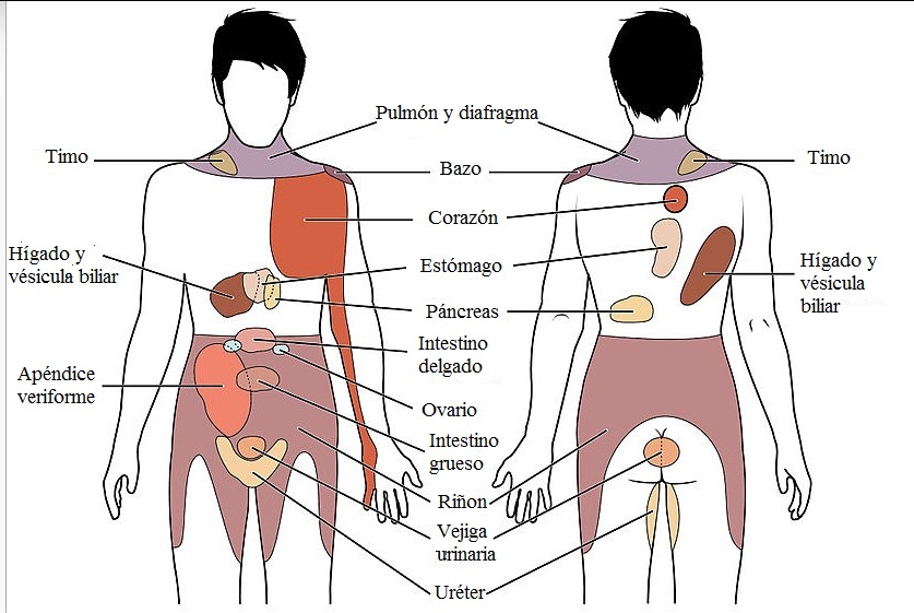 Modification of 1506 Referred Pain Chart with Spanish rather than English tags